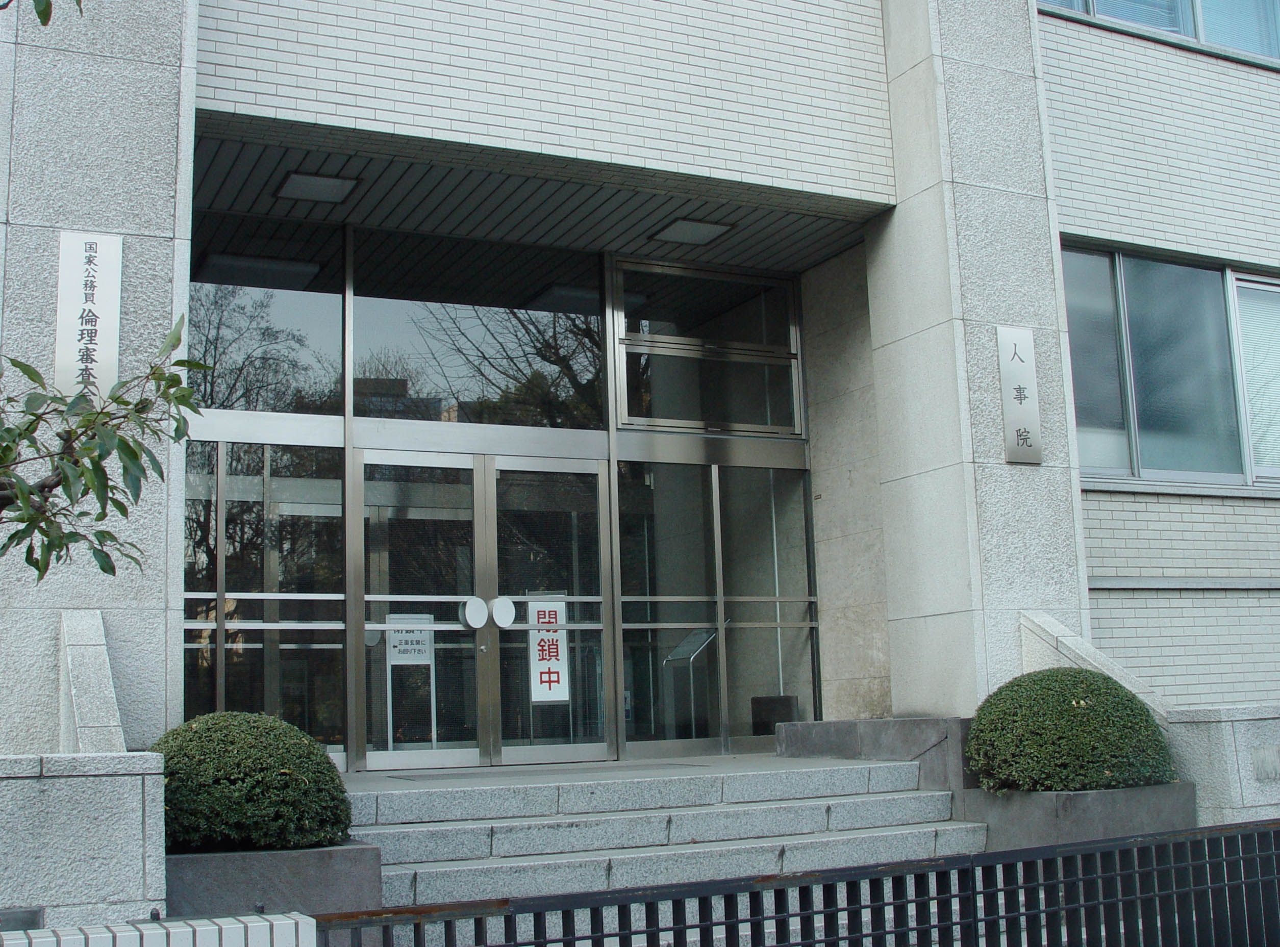 Public office building of the The National Personnel Authority and National government employee Ethical Review Board, Japan 人事院、国家公務員倫理審査委員会庁舎